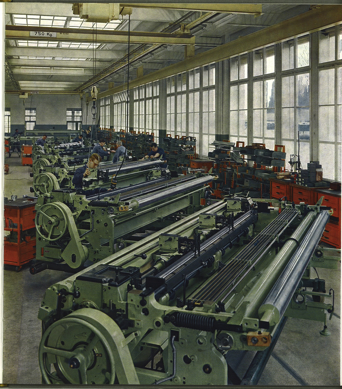 Weaving machine in 1959